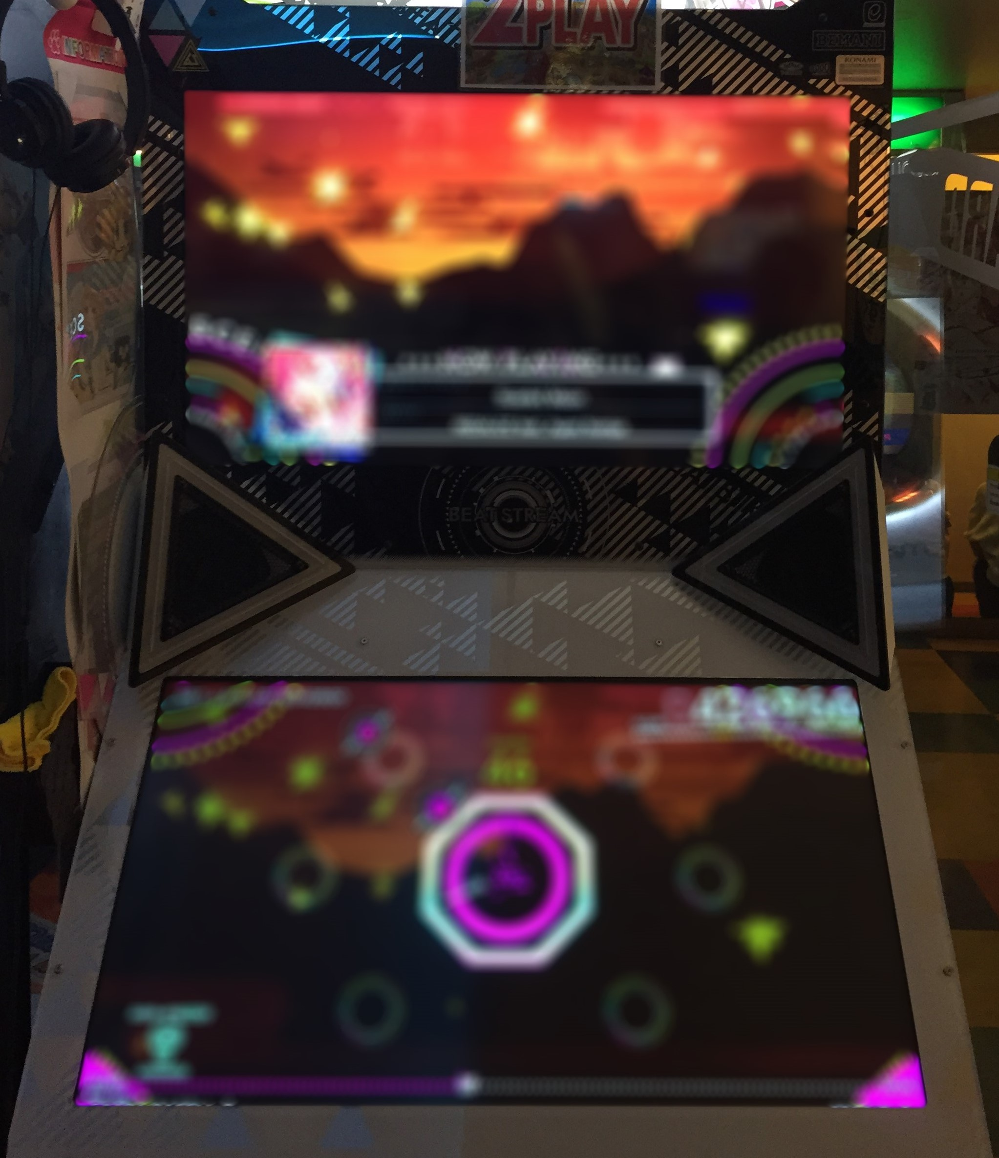 A BeatStream arcade machine.